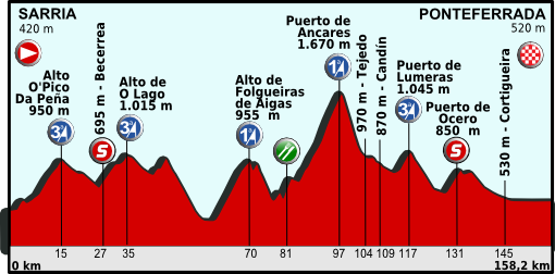 Profile of the 13th stage: Vuelta a España 2011